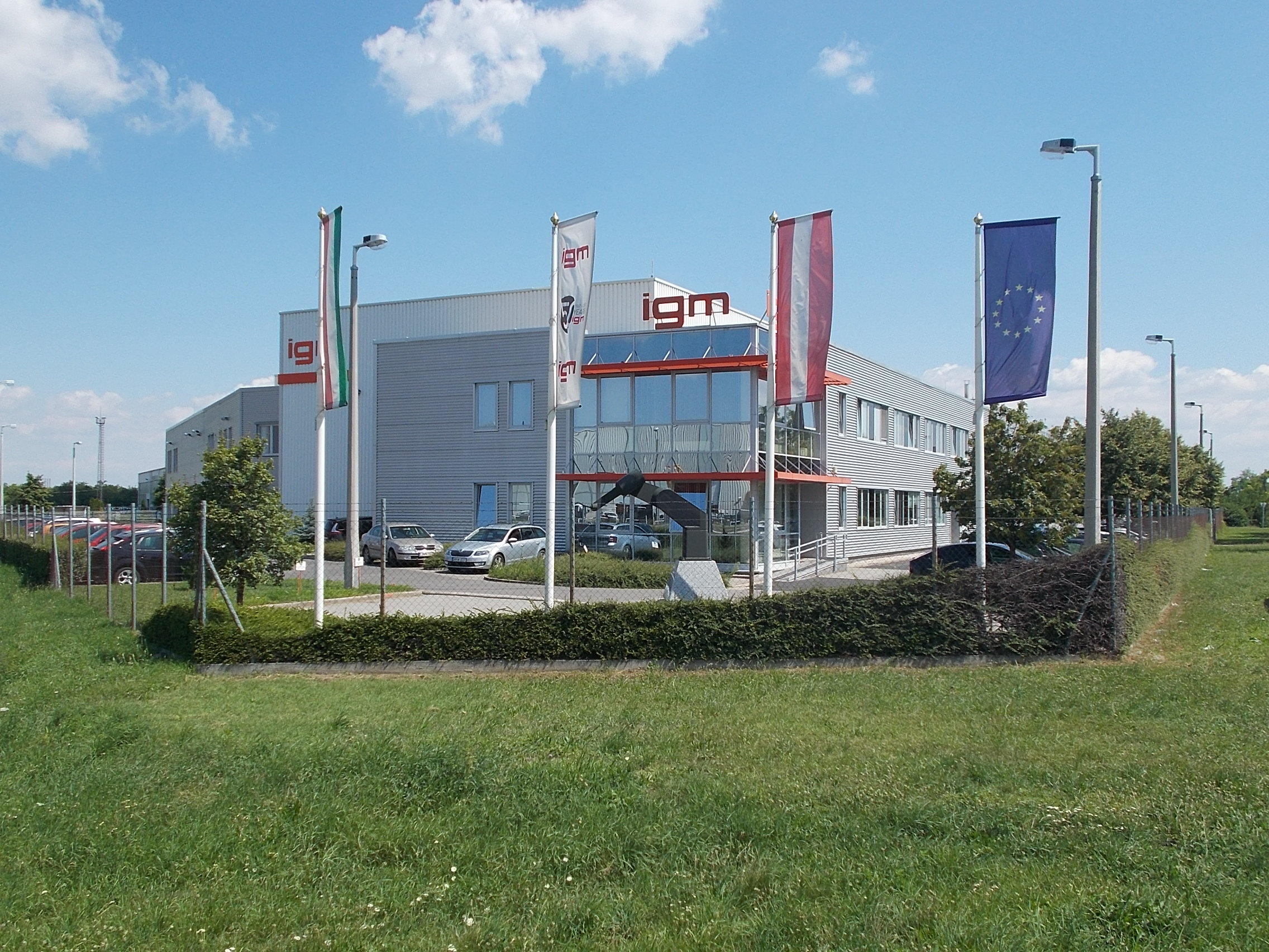 IGM Robotic Systems. - Csörgőfa sor, Industrial Park, Győr, Győr-Moson-Sopron County, Hungary.